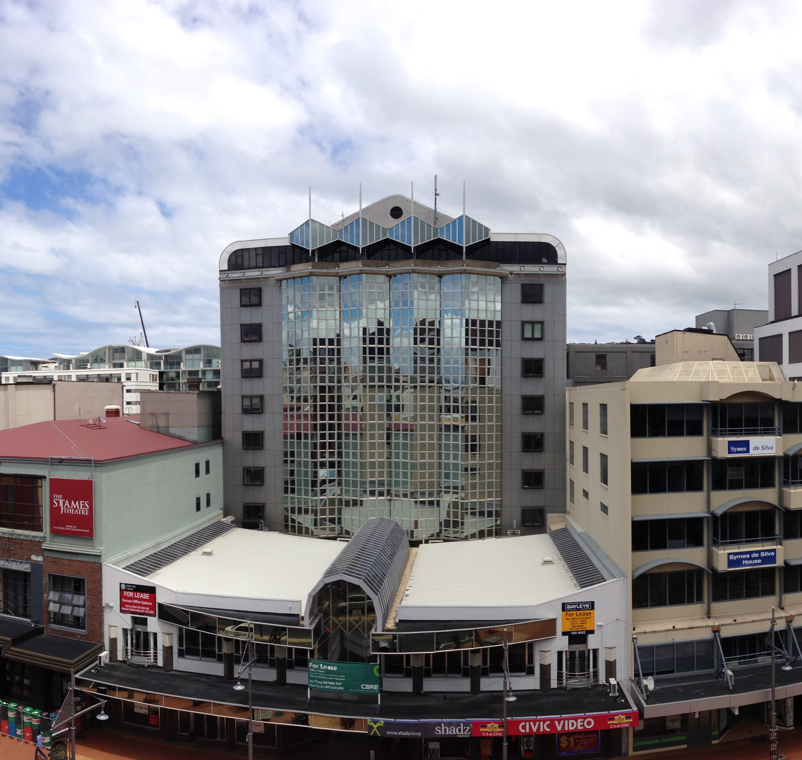 Courtenay Place 8 Dec 2012 the Building in the centre belongs to Colonial Motor Co. It was built in 1922 to assemble Model T Fords. It has a new facade